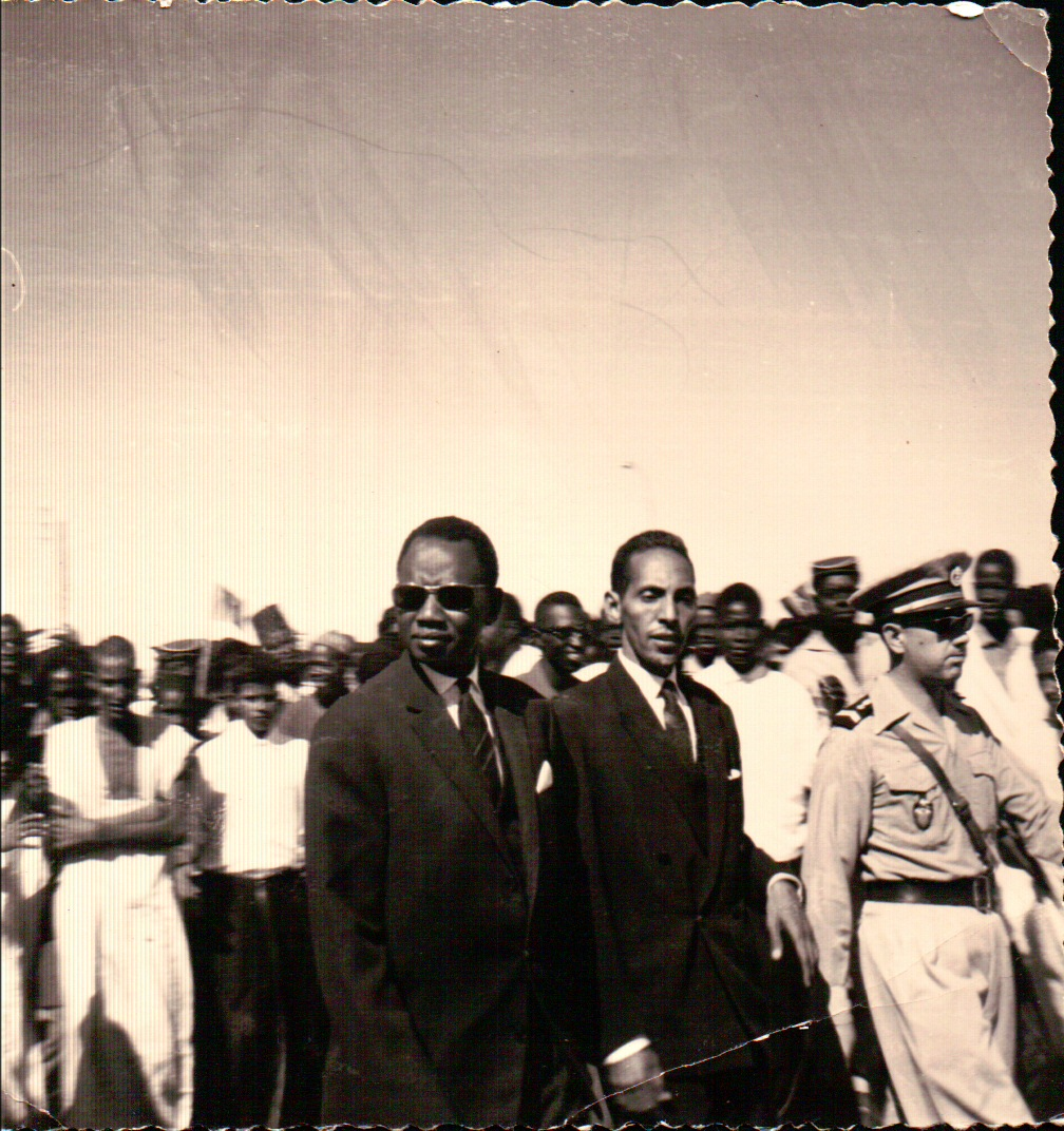 Mamadou Dia, 1st Minister of Senegal visiting Zouerat (Mauritania) in 1962